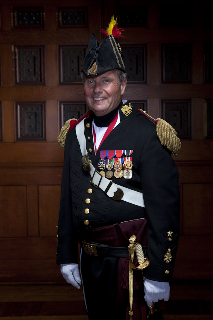 Commandant VCA 2010